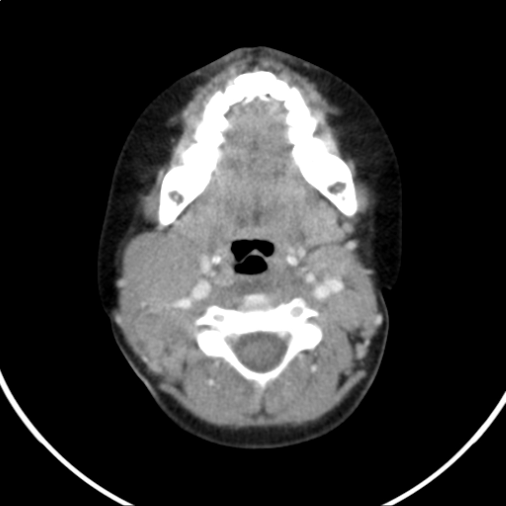 Computed tomography of the throat in highly-malignant non-hodgkin lymphoma present as lymph node swelling in a child (transverse section with contrast).